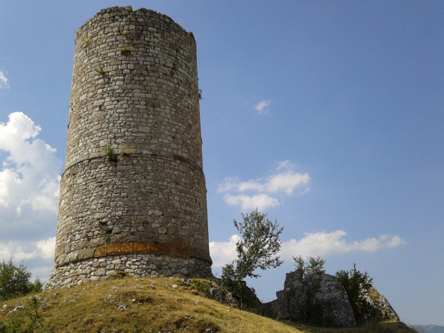 Sperone tower, Abruzzo, Italy